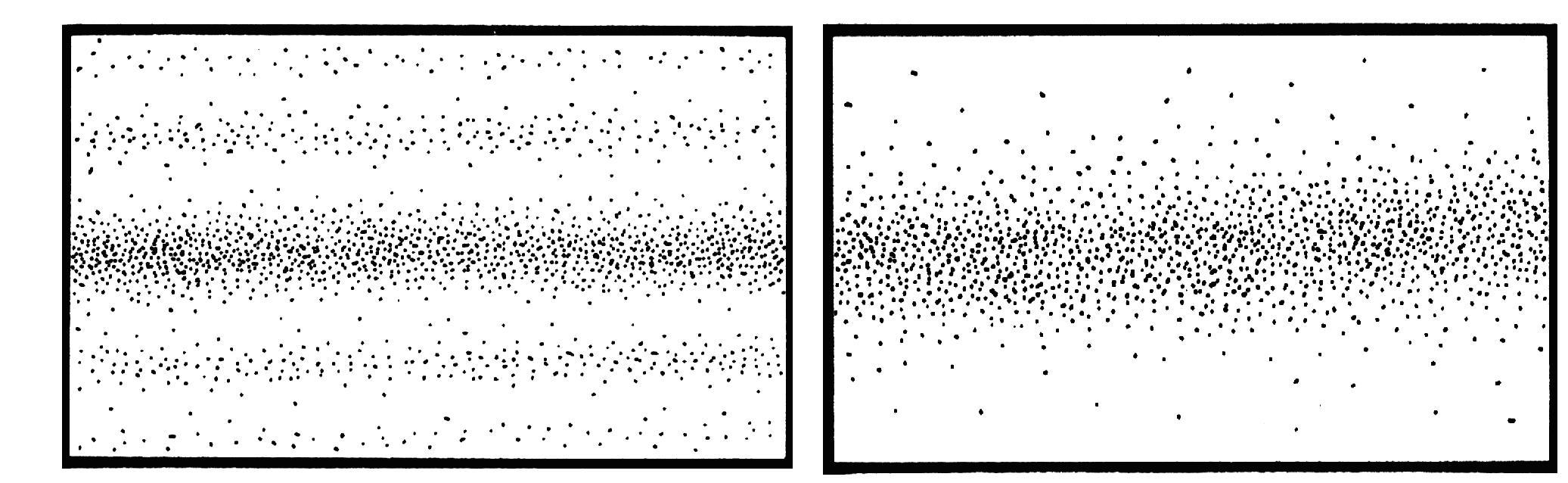 Young Experiment diagramm